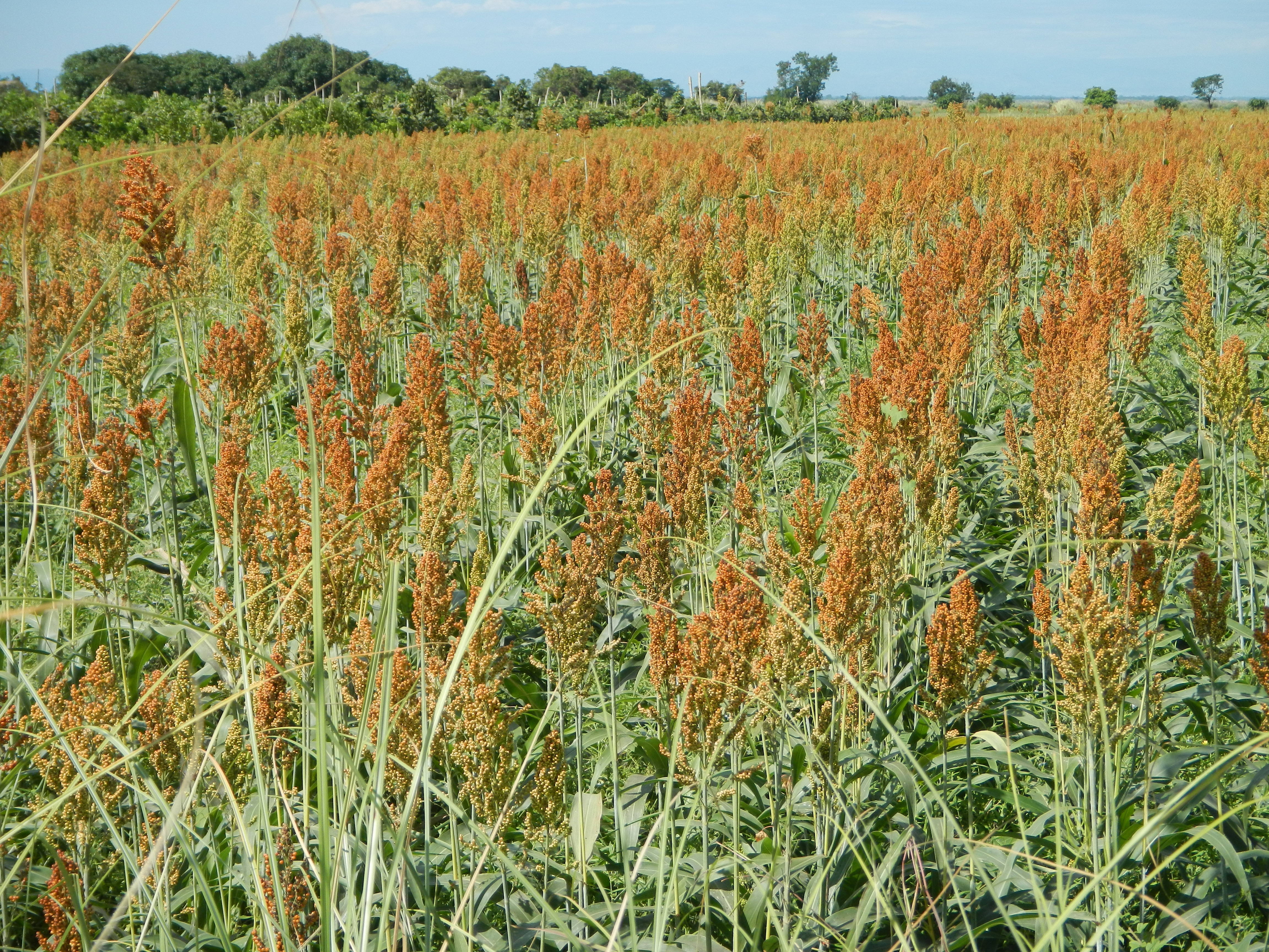 Sorghum bicolor , SPV422 Commercial sorghum (grain sorghum cultivars in Barangay Santa Isabel, Cabiao, Nueva Ecija - NE town eyes title of Phl's Sorghum Capital; Cabiao to plants 7,000 has. idle land to sweet variety SPV422 sorghum Sweet sorghum is any of the many) varieties of the Sorghum bicolor Cabiao, Candaba set to grow sweet sorghum for food, fuel DOST has helped some villages produce vinegar, sweet syrup, juice, bread and snacks from sweet sorghum; The grain is food for people, fodder for animals, the stalks for ethanol fuel and the bagasse for biocompost; agricultural lands in Cabiao span around 7,000 hectares while Candaba has almost 18,000 hectares. SPV422).